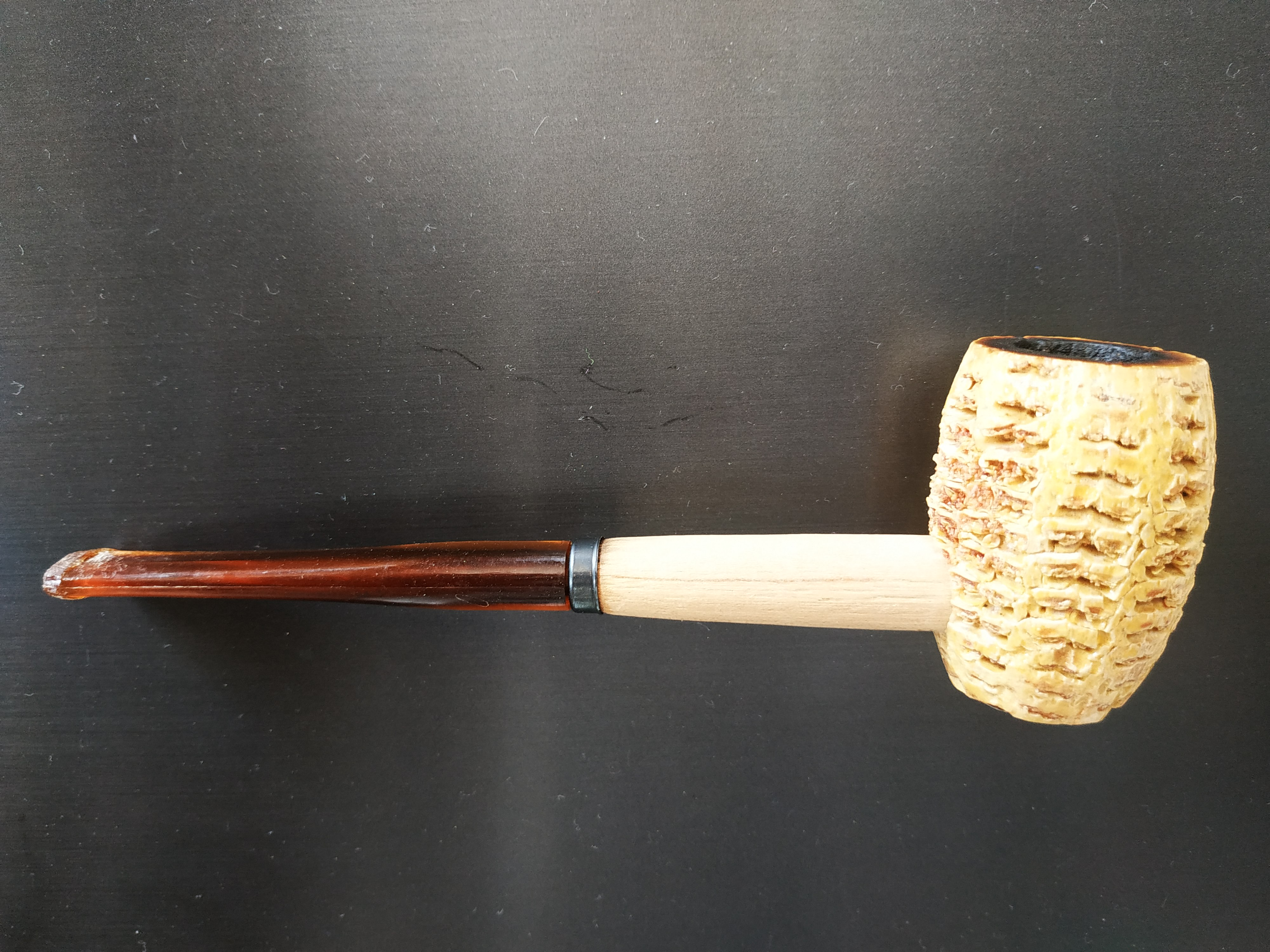 particular type of pipe called "corn cob pipe"